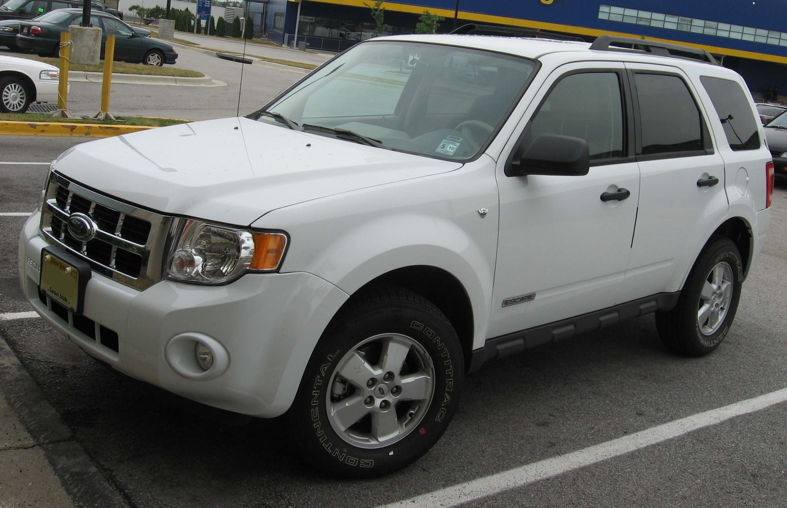 2008 Ford Escape photographed in USA.